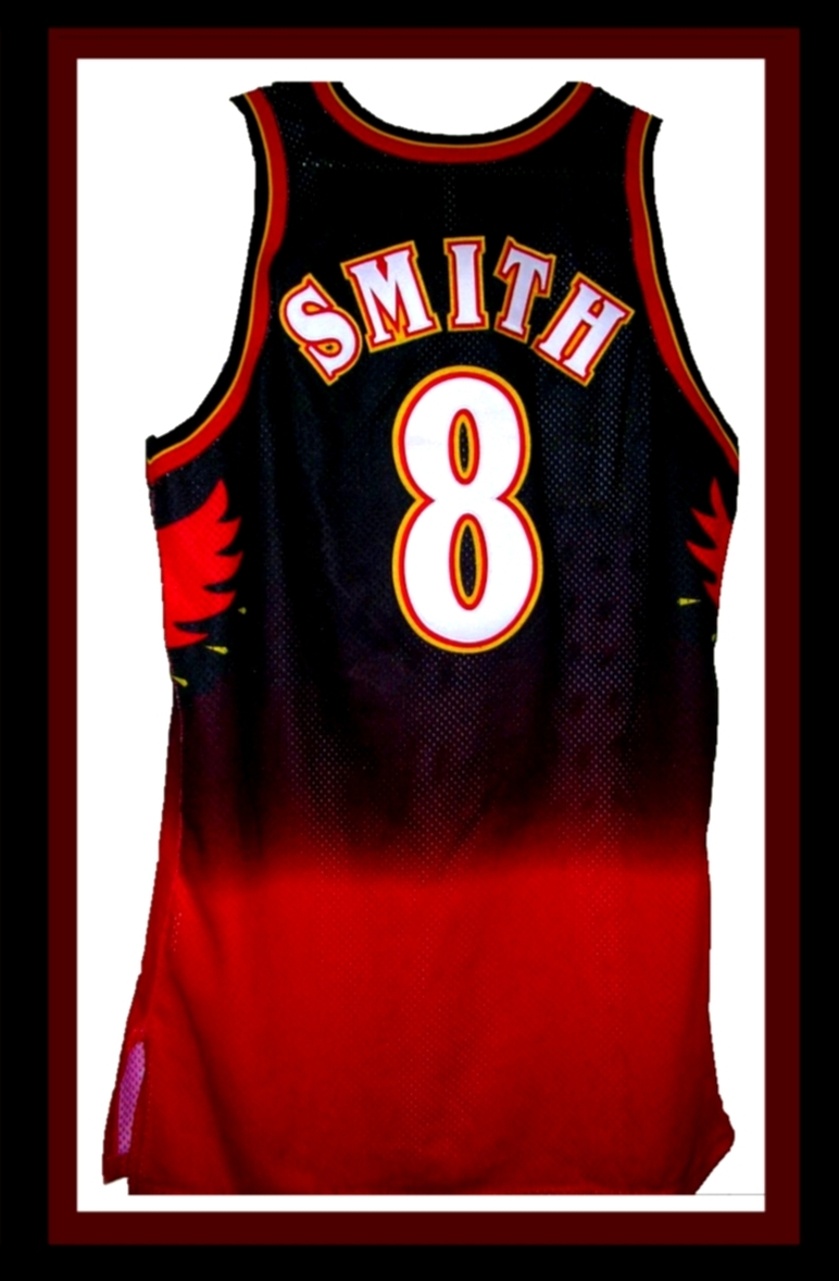 Steve Smith game worn 1997-98 Atlanta Hawks basketball jersey. The Hawks wore the stylized Hawk logo uniforms from 1995-1999. The photograph was taken from my sports memorabilia collection with a Nikon Coolpix e3200 digital camera and edited using ArcSoft PhotoStudio 5.5